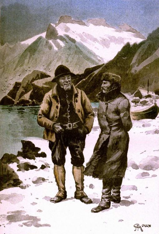 An illustration from Jules Verne's novel "The Sphinx of the Ice Fields" (or "An Antarctic Mystery", 1895) drawn by George Roux.